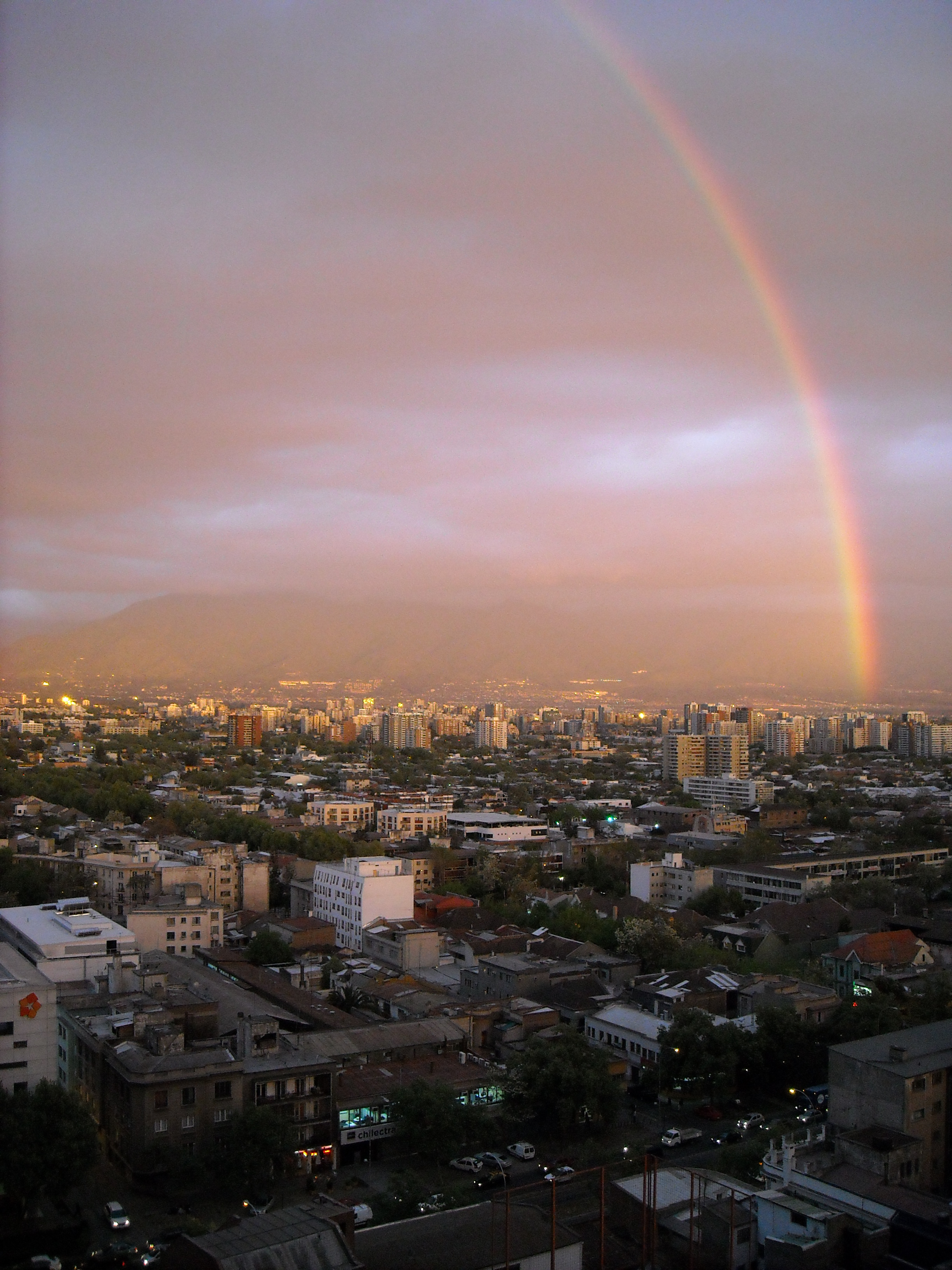 Rainbow in Santiago, Chile in 2011-10-06